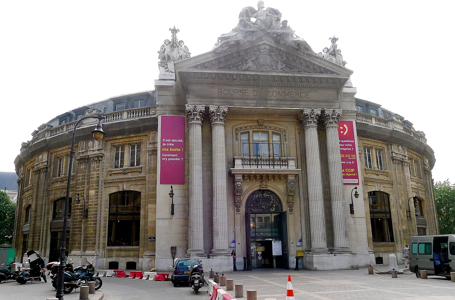 Bourse de Commerce - Paris